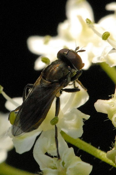 Cheilosia mutabilis from Commanster, Belgian High Ardennes .